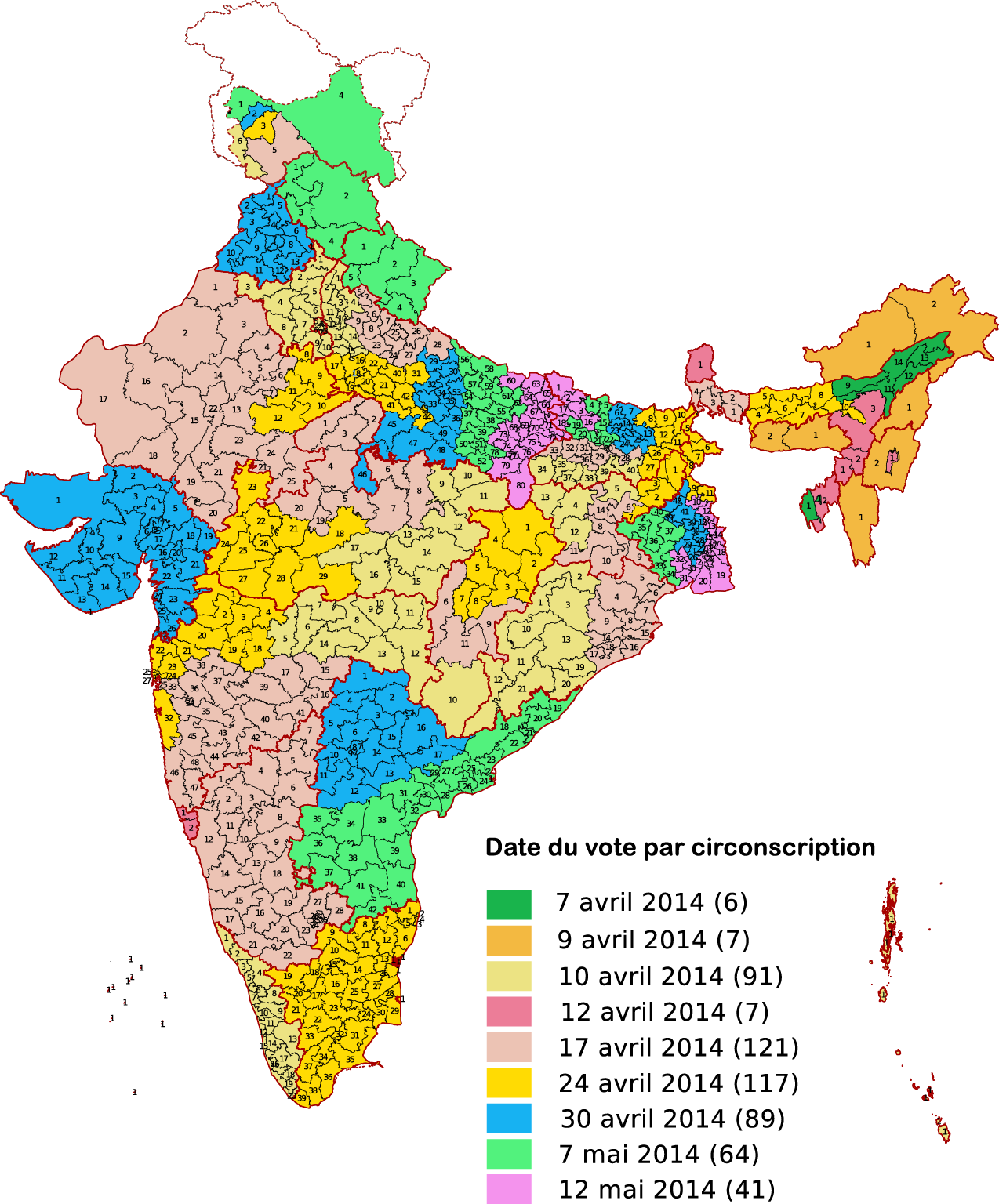 Election dates for the Indian general election, 2014